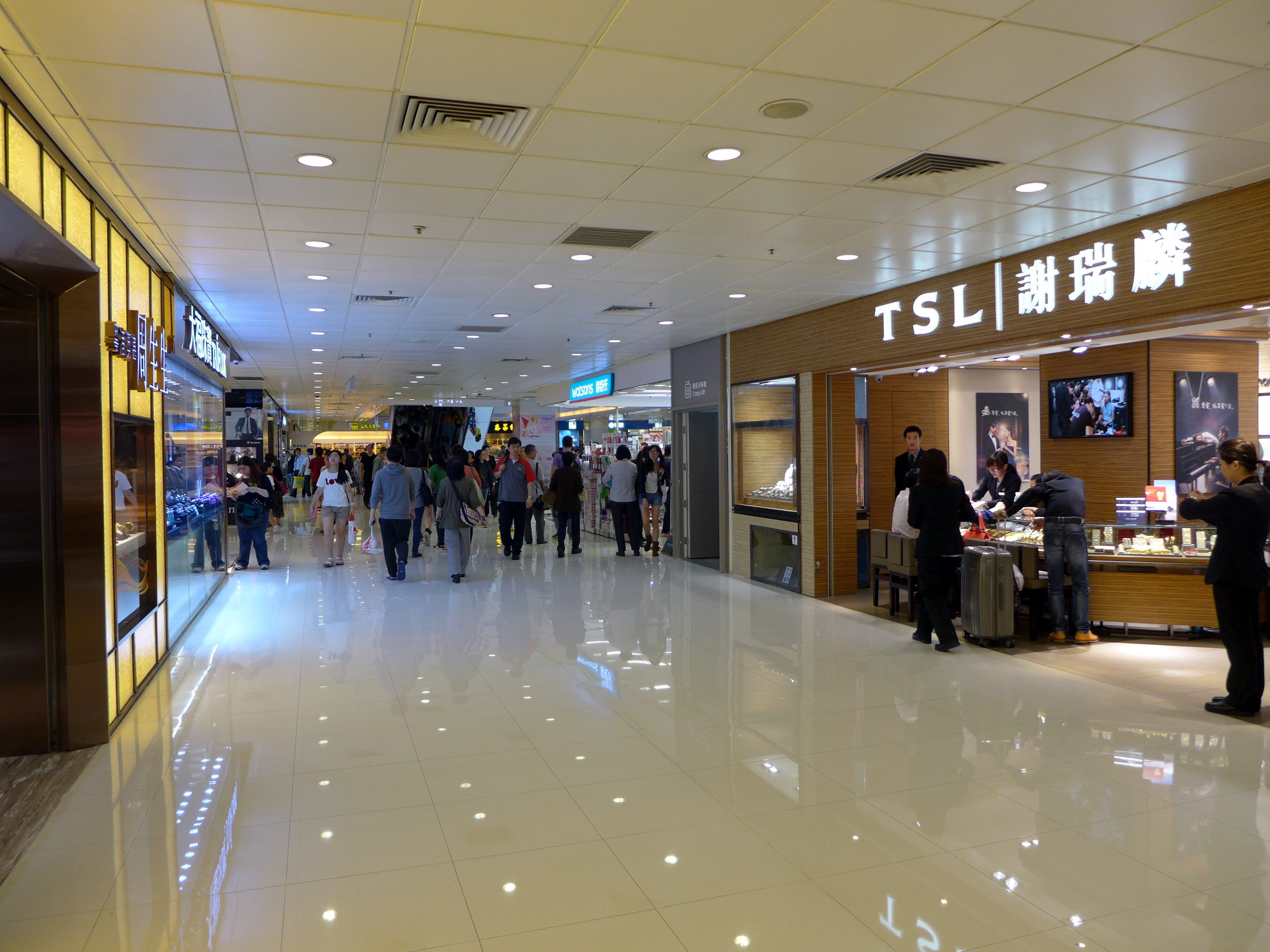 Tuen Mun Town Plaza Phase 2 屯門市廣場第2期